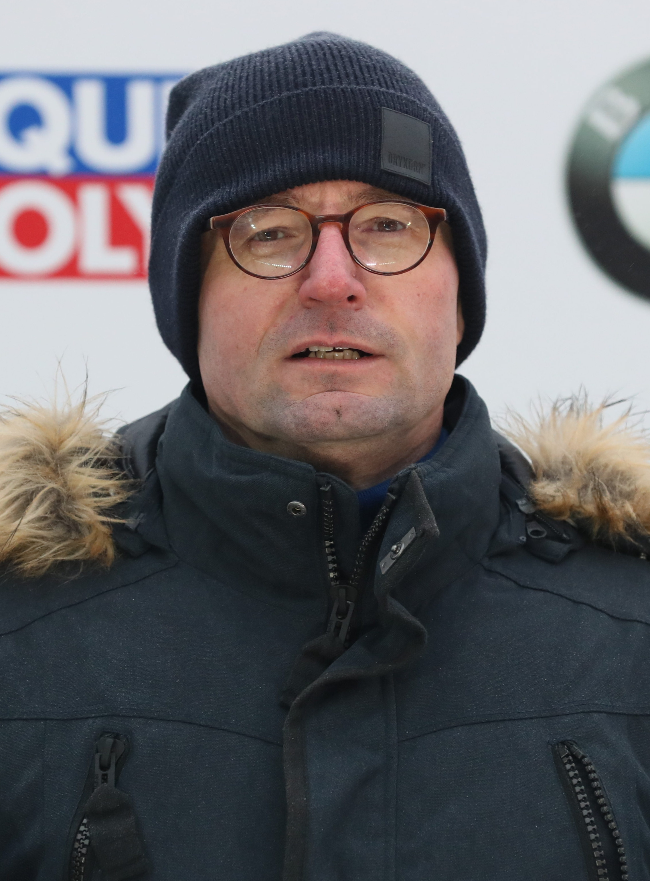 Handover of the grant notification from the Free State of Saxony for the Bob and Skeleton World Championships 2020 at the 2018/19 Bobsleigh World Cup in Altenberg: Roland Wöller, Saxon State Minister of the Interior